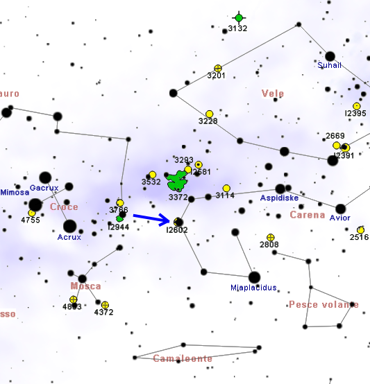 IC 2602